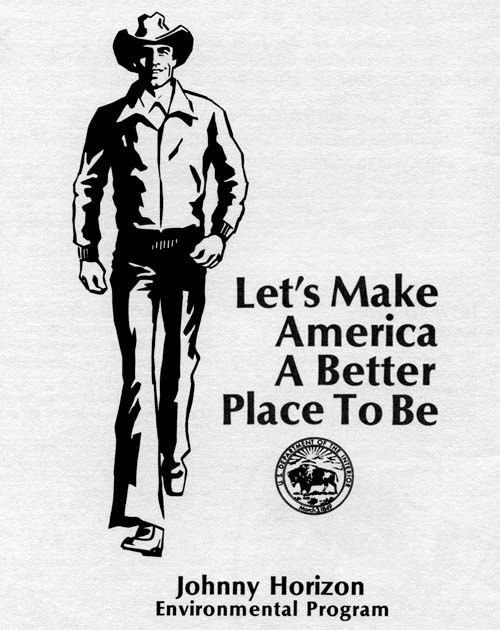 Johnny Horizon, mascot of the United States Bureau of Land Management in the 1970's Other information Protection under Federal law (18 U.S.C. 714) was repealed in 1982